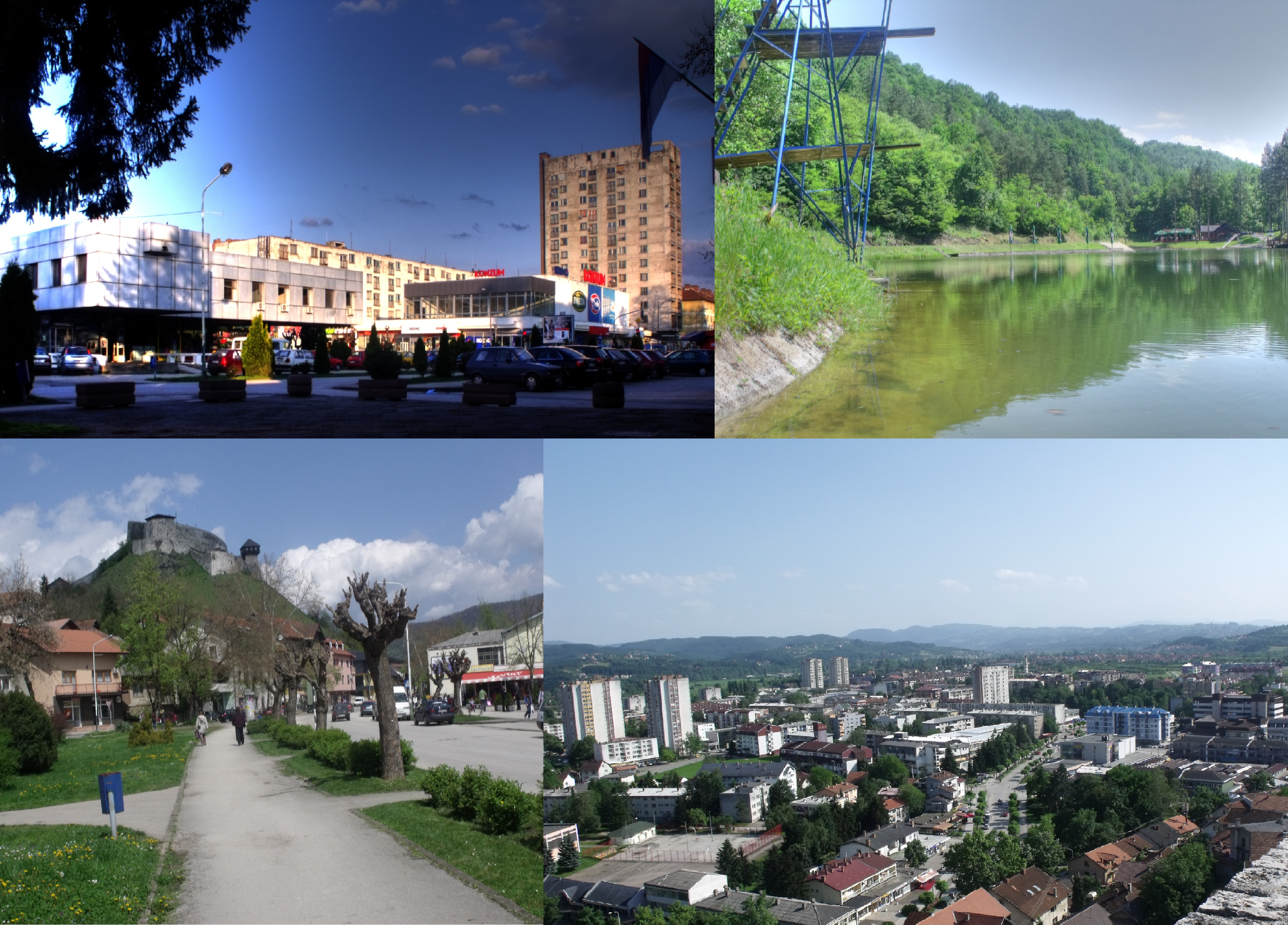 Doboj Collage